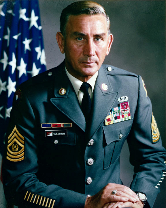 SMA Leon Van Autreve from [1]